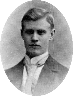 Image scanned from the book "Svenskt Porträttgalleri XX - Arkitekter, Bildhuggare, Målare m.fl. " ("Swedish Portrait Gallery XX - Architects, Sculptors, Painters, ") published 1901